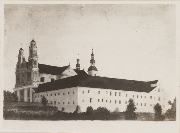 Carmelite Catholic Monastery in Hłybokaje